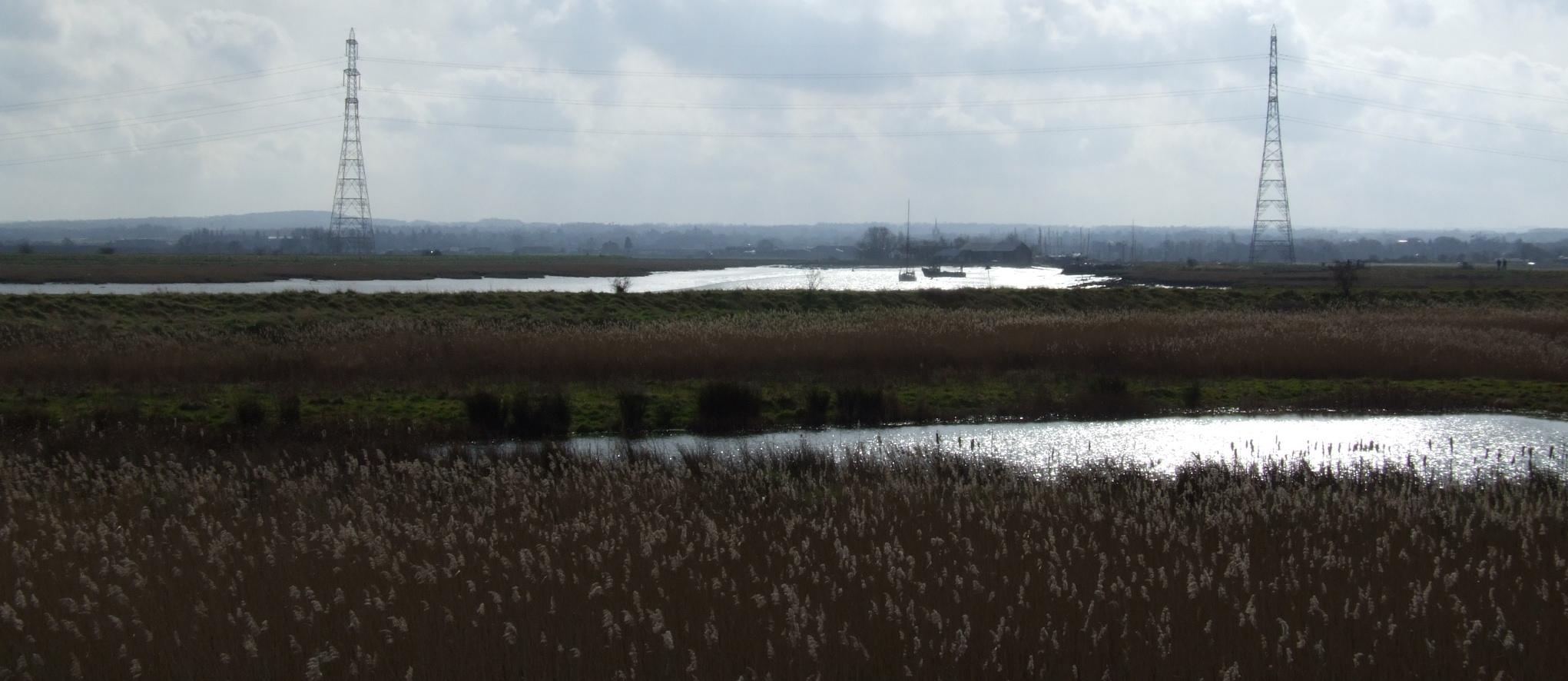 Oare, Kent is a village in Kent on the west bank of the Oare Creek, near Faversham.To the north of the village are the Oare Marshes and the The Swale. Looking over the Oare marshes and the Oare Creek to Faversham